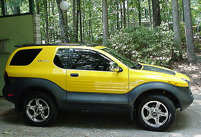 2001 Isuzu Vehicross. John Eaton, Image taken by me of my truck 11/4/02